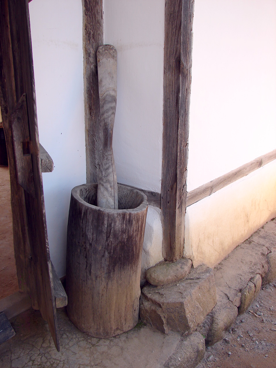 This device is used to pound sweat rice into a batter for use in making rice cake. Cheongpung Cultural Properties Complex - located by the Chungjuho Lake. This complex is a reconstructtion of Cheongpung, a village that became submerged after the construction of Chungju Dam. It took three years to relocate the buildings and structures in the current site at a cost of of over 1.6 trillion won.